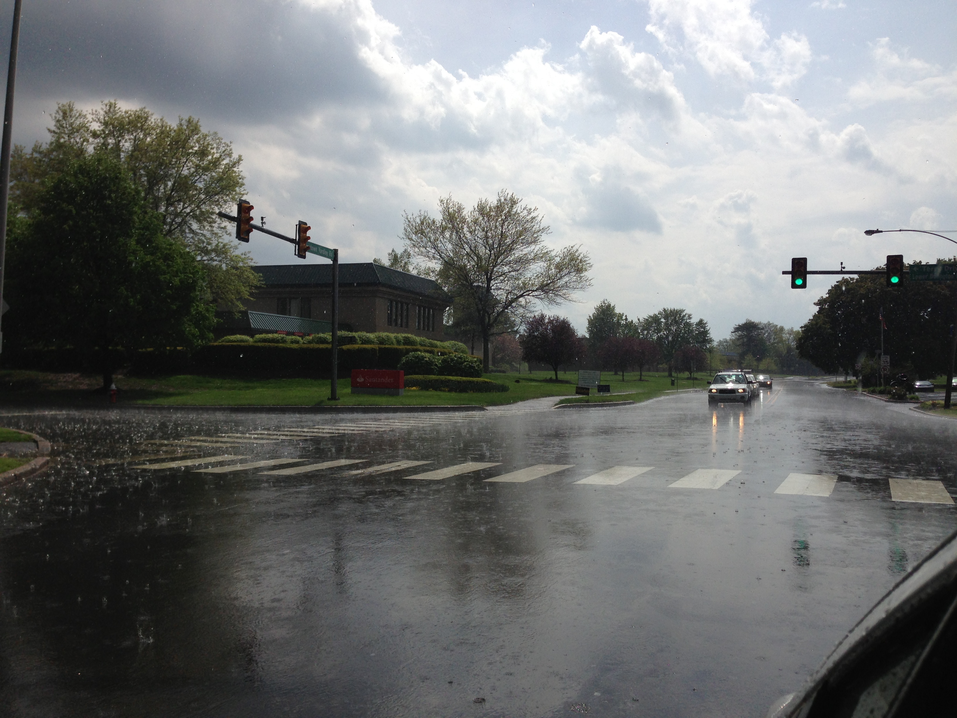 A sun shower on Newtown Yardley Road at Dolington Road in Newtown Township, Pennsylvania